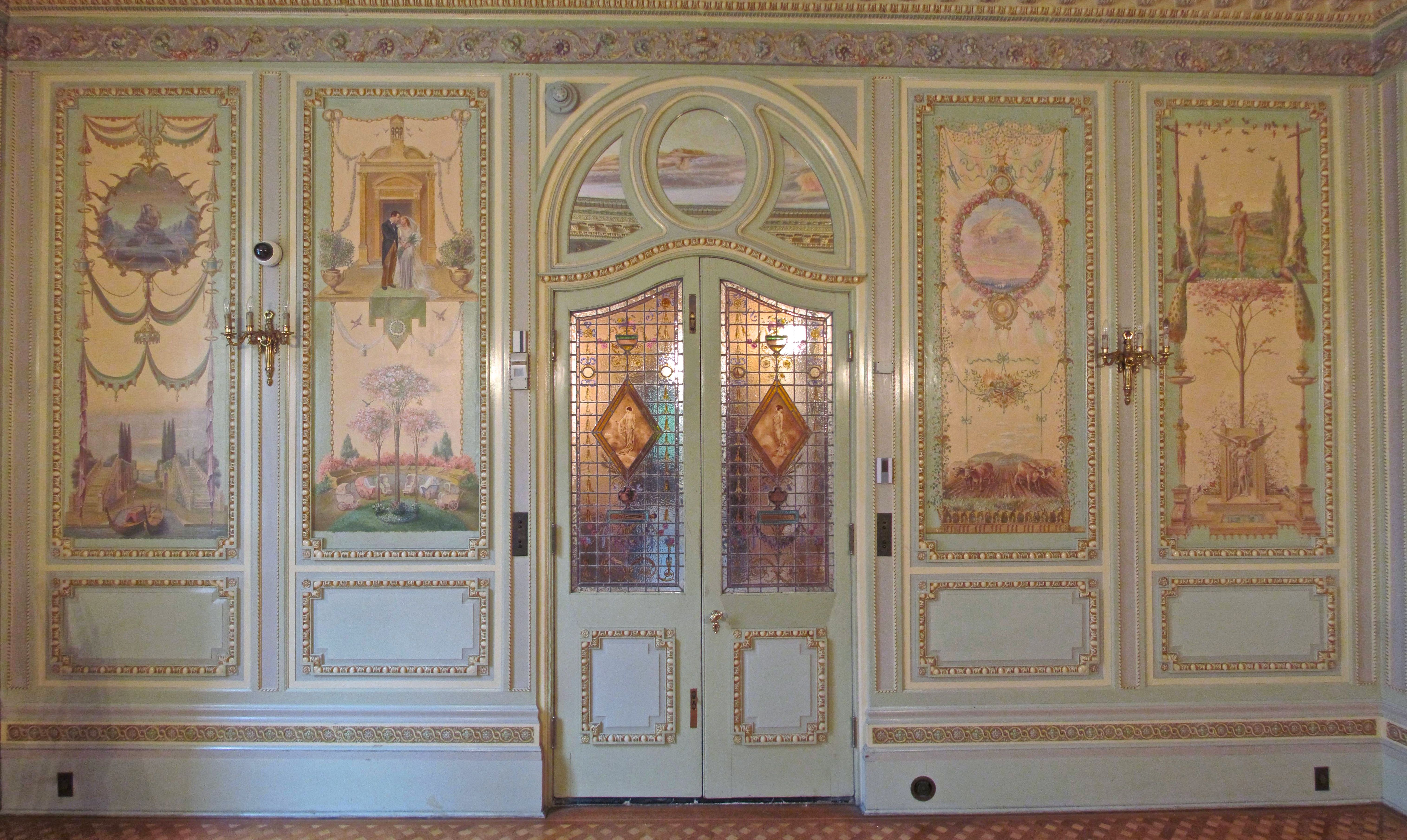 Ladies' sitting room or Lounge (East wall), Oscar Dufresne House (Château Dufresne), 4040 Sherbrooke Street East, Montreal, Quebec, Canada.